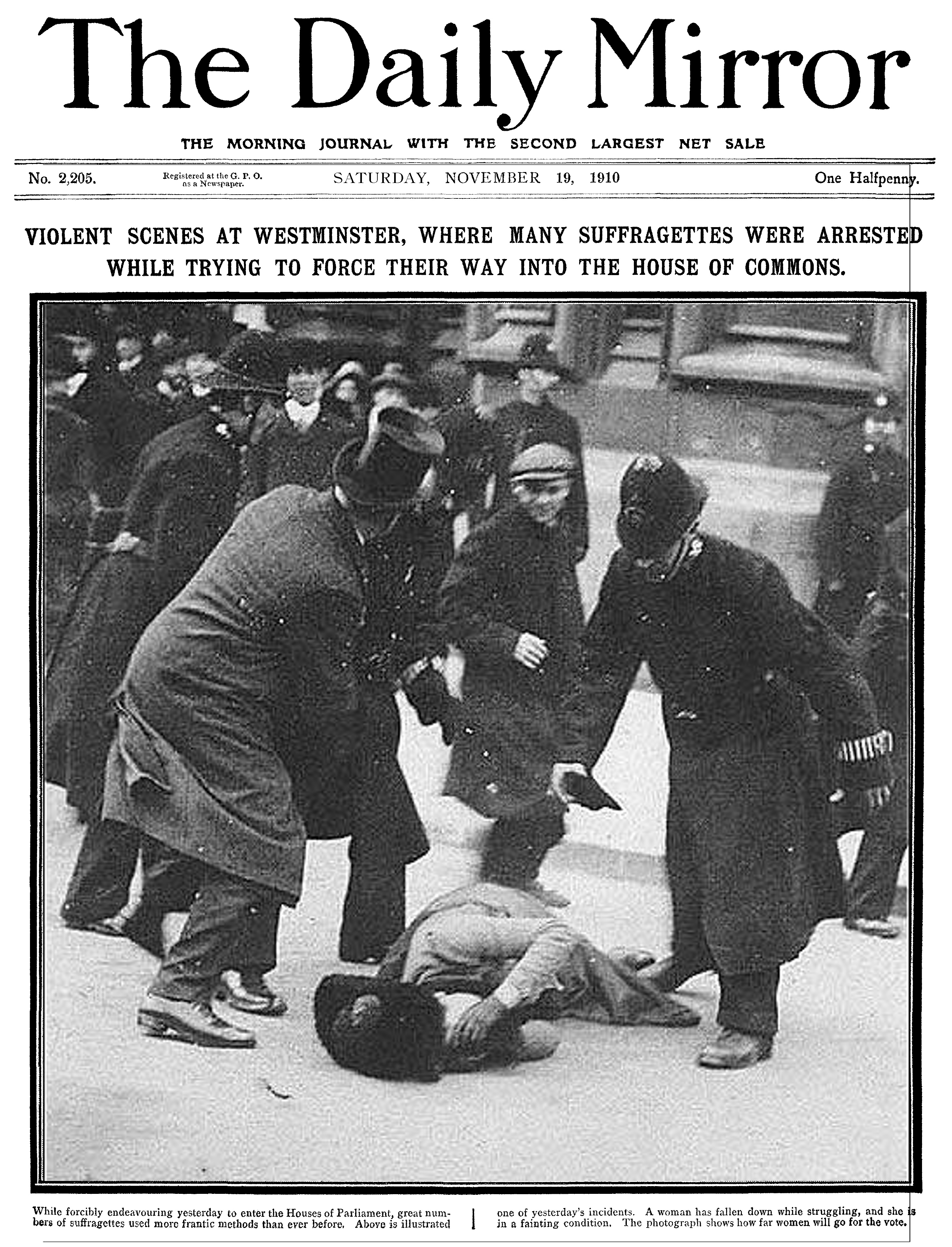 Front page of The Daily Mirror, 19 November 1910: "Violent scenes at Westminster, where many suffragettes were arrested while trying to force their way into the House of Commons." The image shows Ada Wright lying on the ground during Black Friday. Retouched to remove stamp & spotting